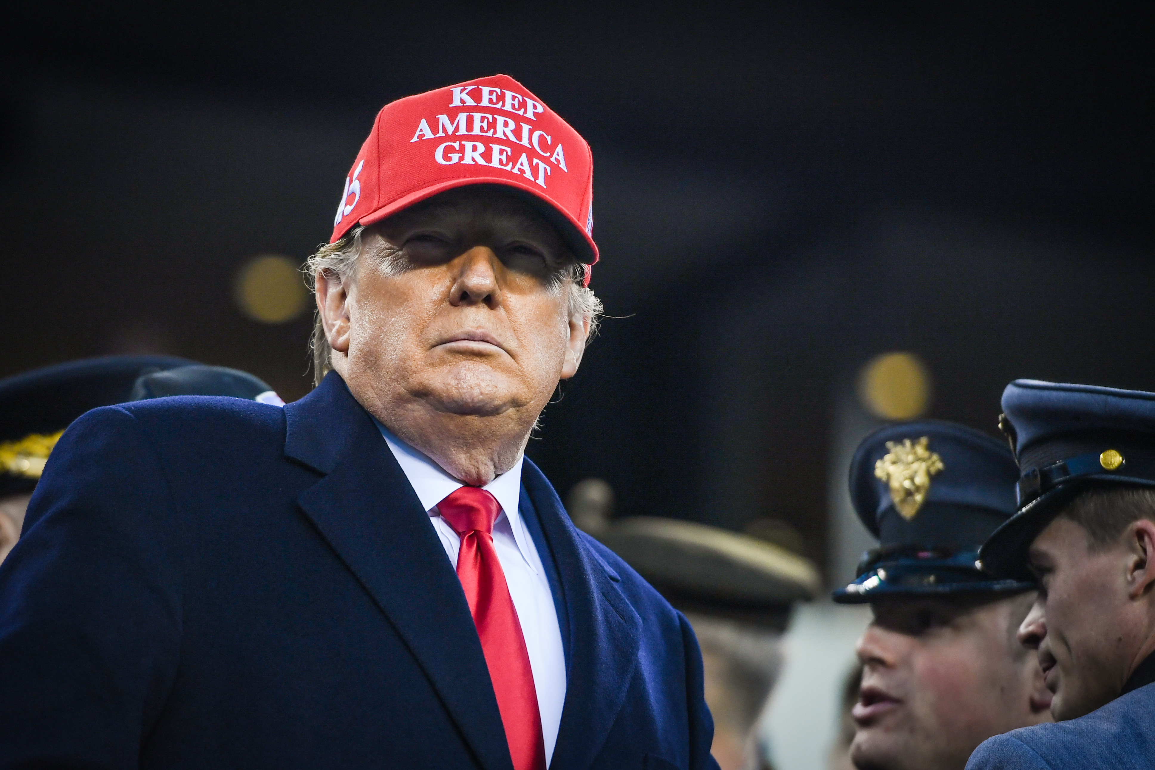 President of the United States of America, Donald J. Trump, attends the 2019 Army Navy Game in Philadelphia, Pa., Dec. 14, 2019. (U.S. Army photo by Sgt. Dana Clarke)